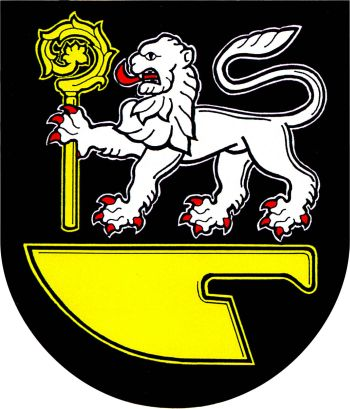 Budišovice CoA CZ